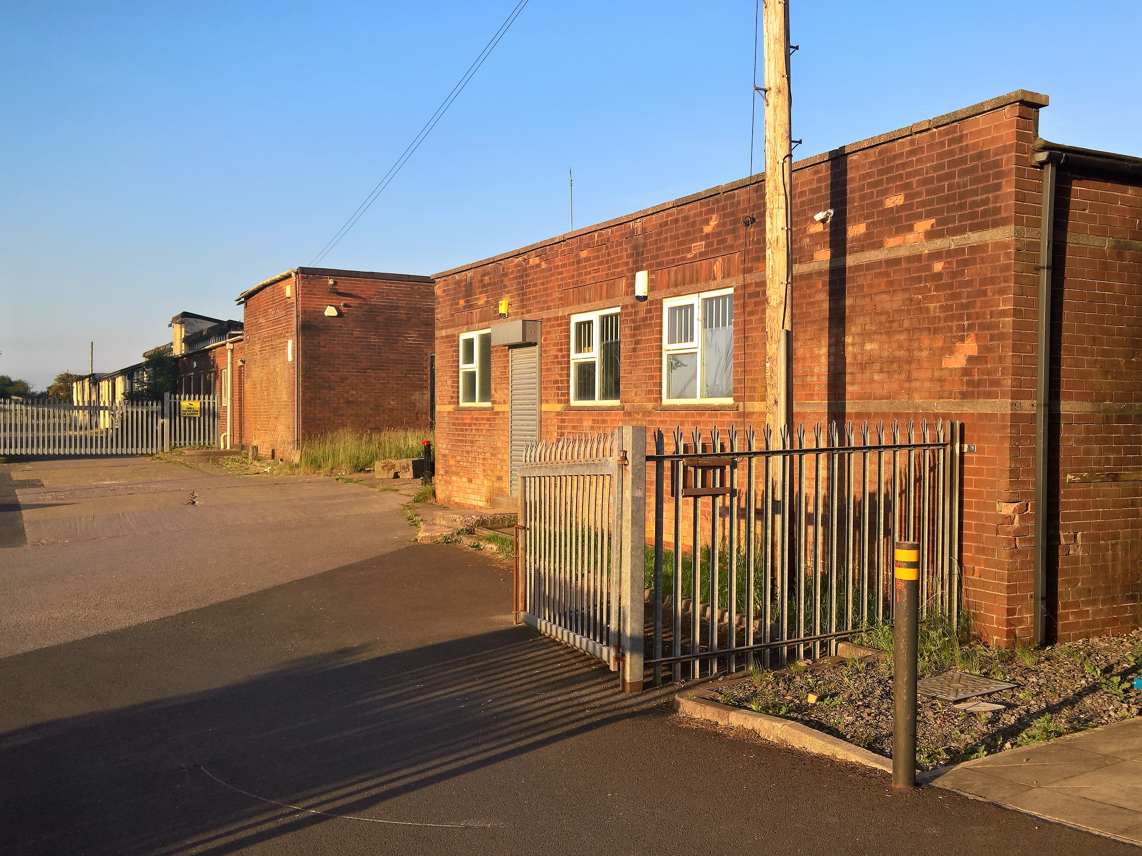 The surviving buildings of the former Thorny Bank Colliery in Hapton, Lancashire. Only in operation from 1952 until 1968, this colliery continued the workings from Hapton Valley a little over a mile to the northeast.